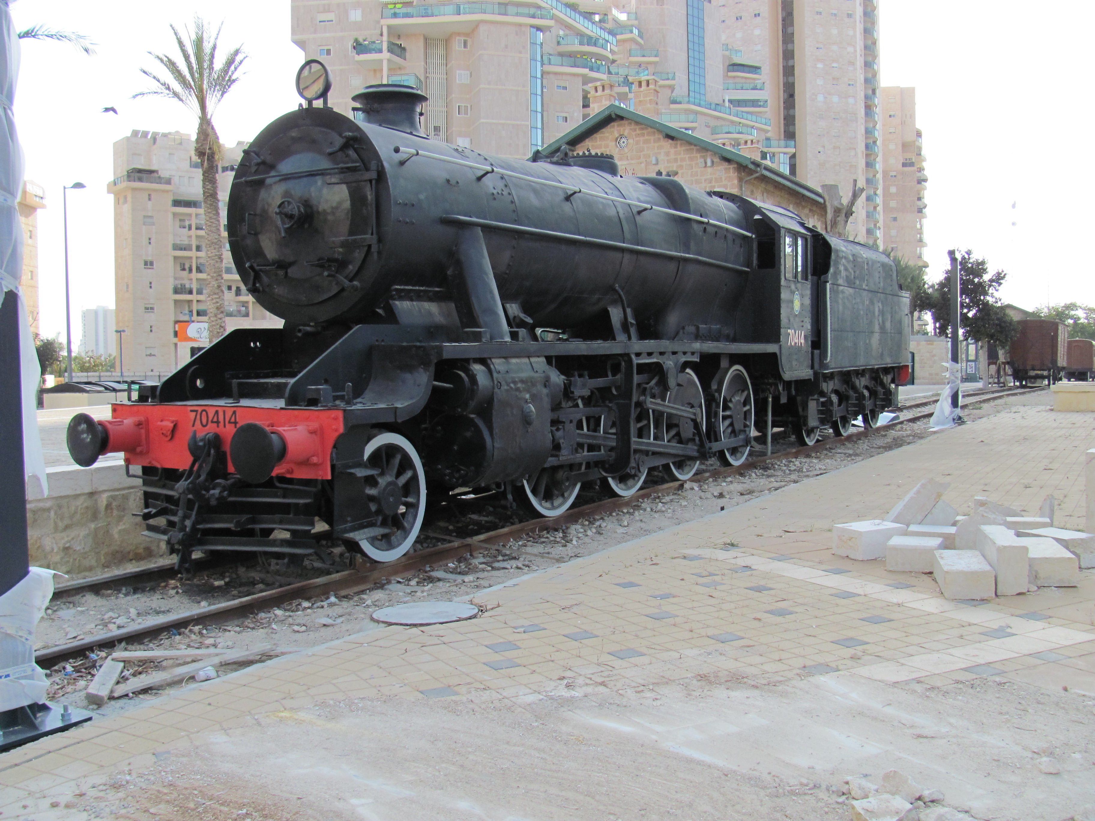 LMS Stanier Class 8F No. 70414 of Israel Railways at Beer Sheva Ottoman Railway station after its restoration. In original TCDD 45151 Class. Built as WD 341 by North British Locomotive Company (24641 of 1940), it became TCDD 45166 in 1941. It was moved to Britain in 2010, and sold to Israel in 2012.